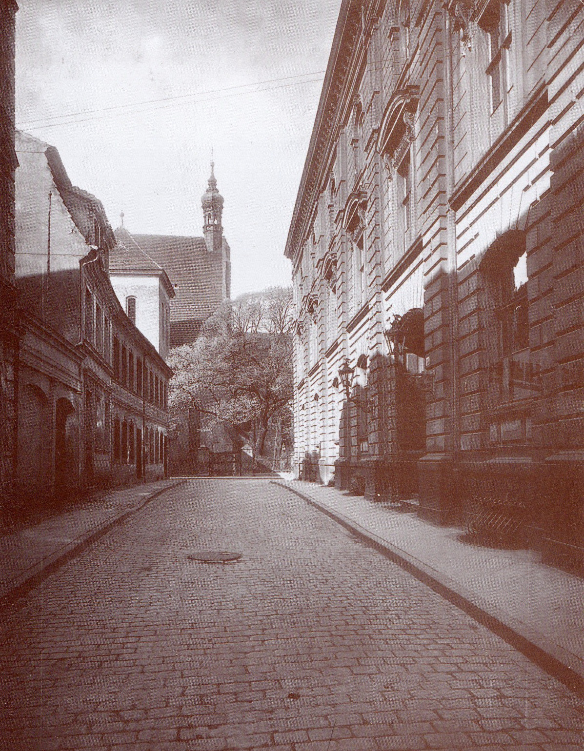 View ca 1905